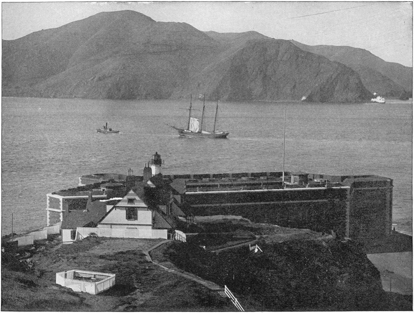 Golden Gate, circa 1891. The caption reads: "GOLDEN GATE, California.—This forms the entrance to San Francisco Bay, which is about seventy miles long and from ten to fifteen wide, and is narrowed into a channel only about one mile wide; here the waters escape in a current as the tide ebbs and flows to and from the ocean. As one approaches from the ocean towards the bay, the south side of the Golden Gate exhibits a shelving point of land which terminates in a long fortification called Fort Point. The portion of the strait between the light house on the north and the fort on the south, is termed "The Golden Gate," or "Chrysopylæ.""